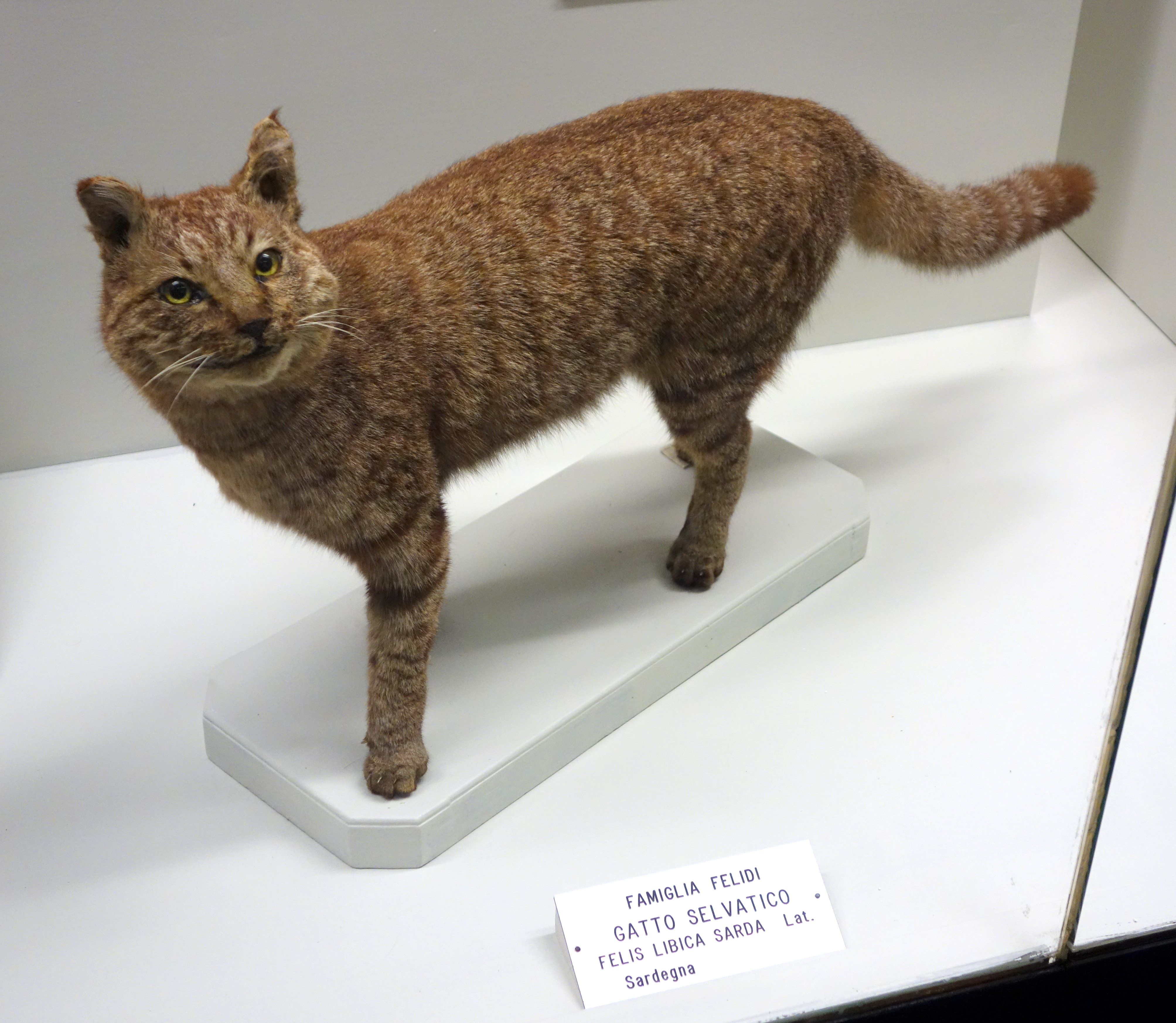 Exhibit in the Museo Civico di Storia Naturale di Genova, Via Brigata Liguria, 9, 16121, Genoa, Italy.